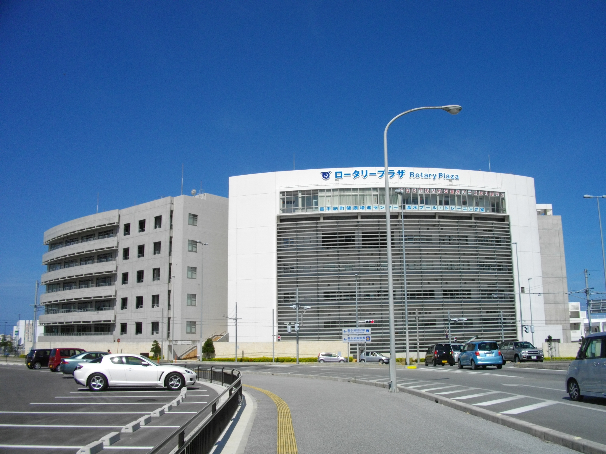 Okinawa Defense Bureau building and Rotary Plaza